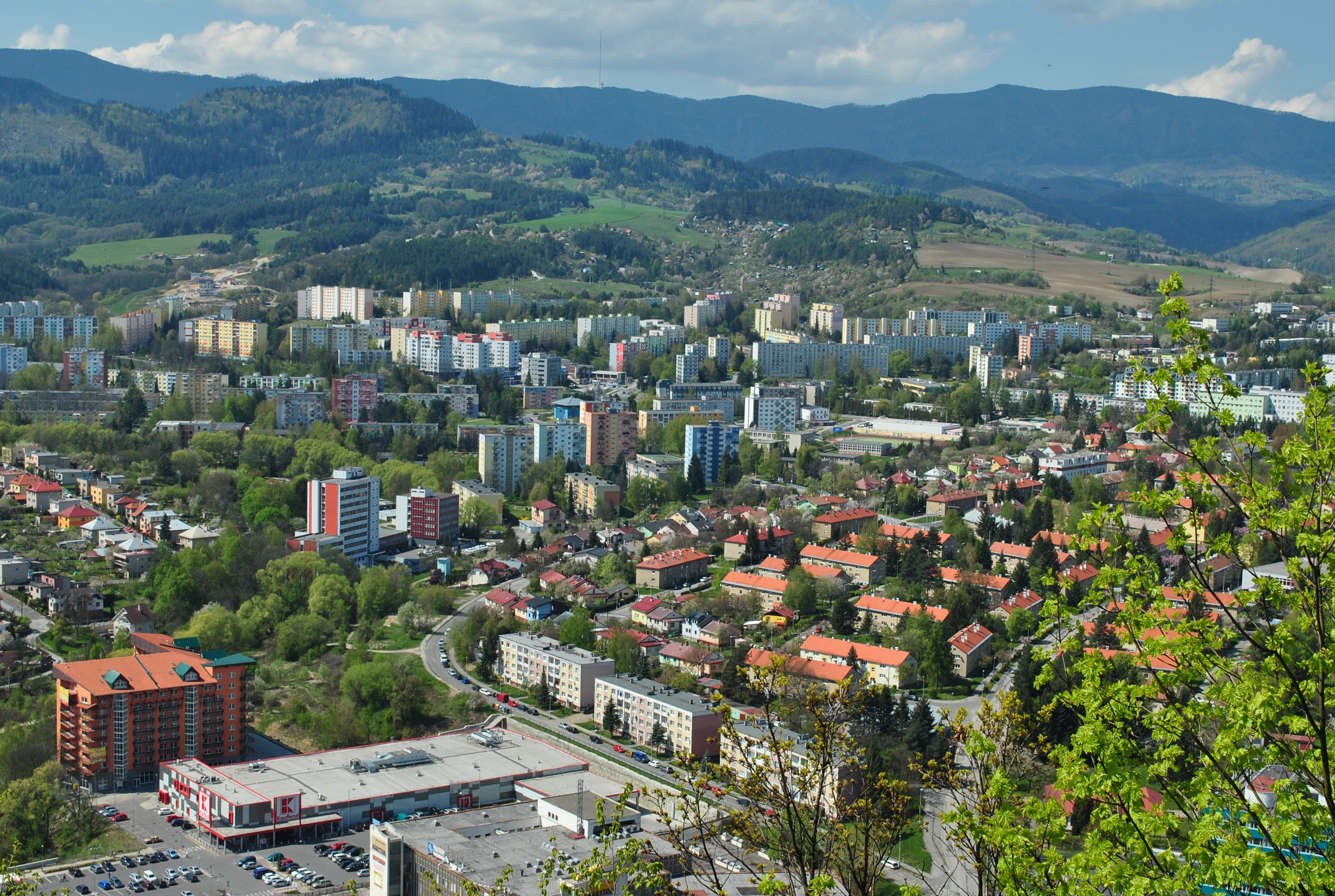 Banská Bystrica - town district of Fončorda